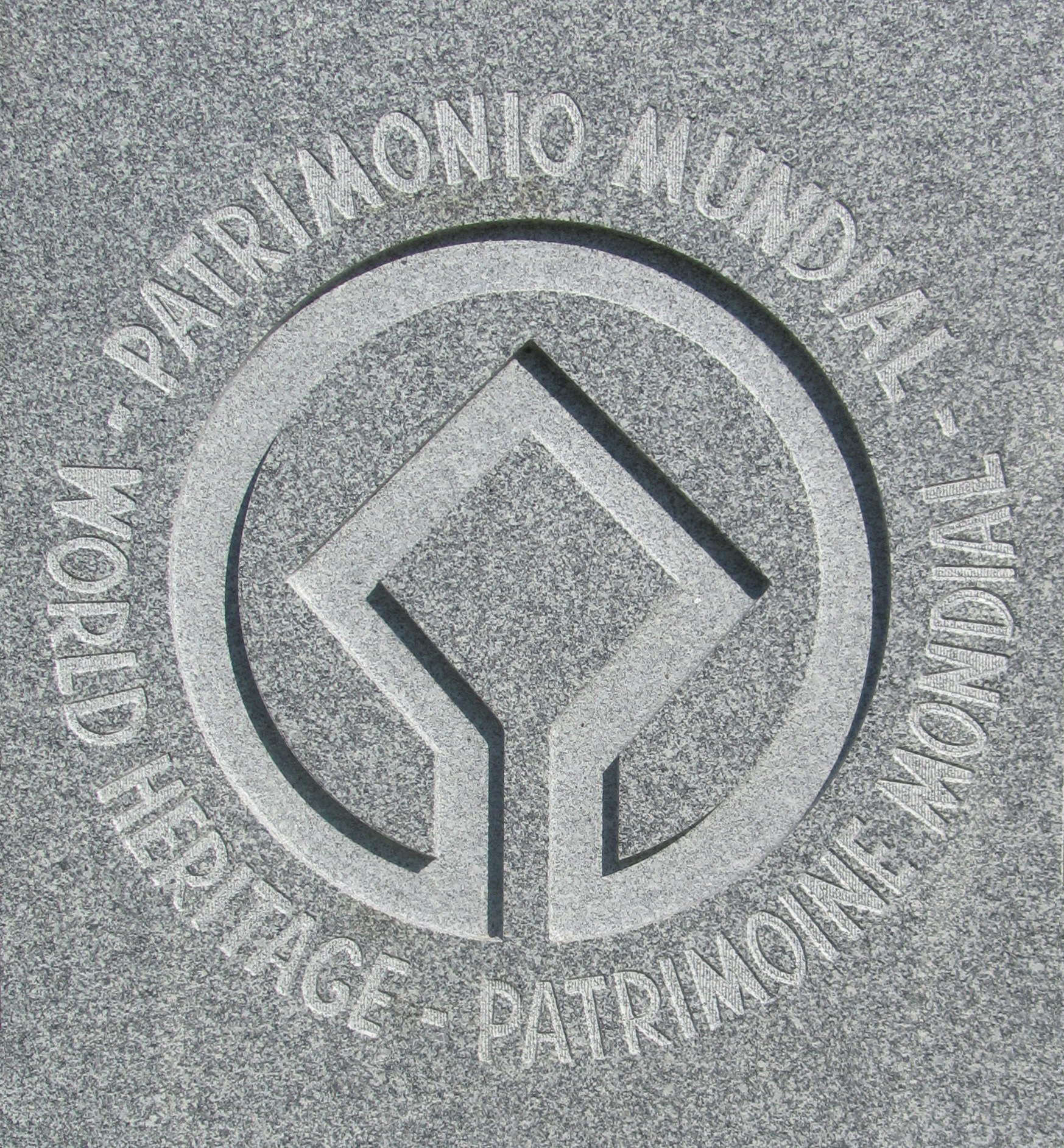 World Heritage logo in a sculpture in Alcalá de Henares (Community of Madrid - Spain)